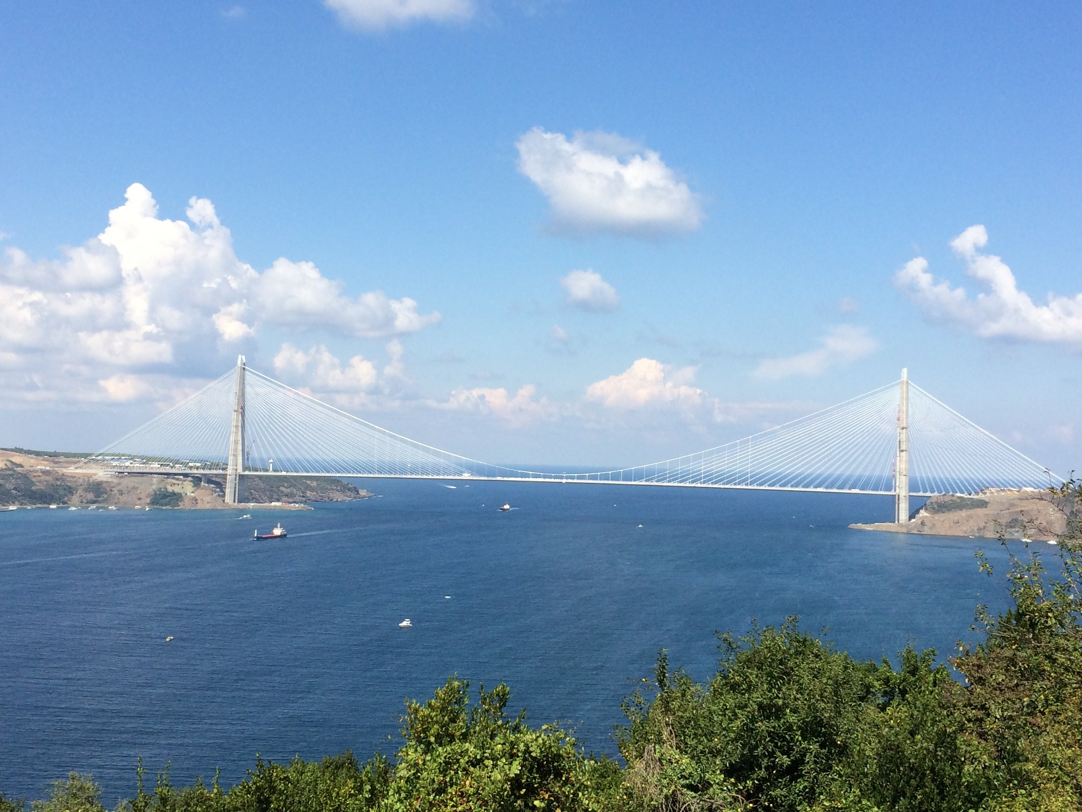 Yavuz Sultan Selim Bridge, view from Yoros Kalesi